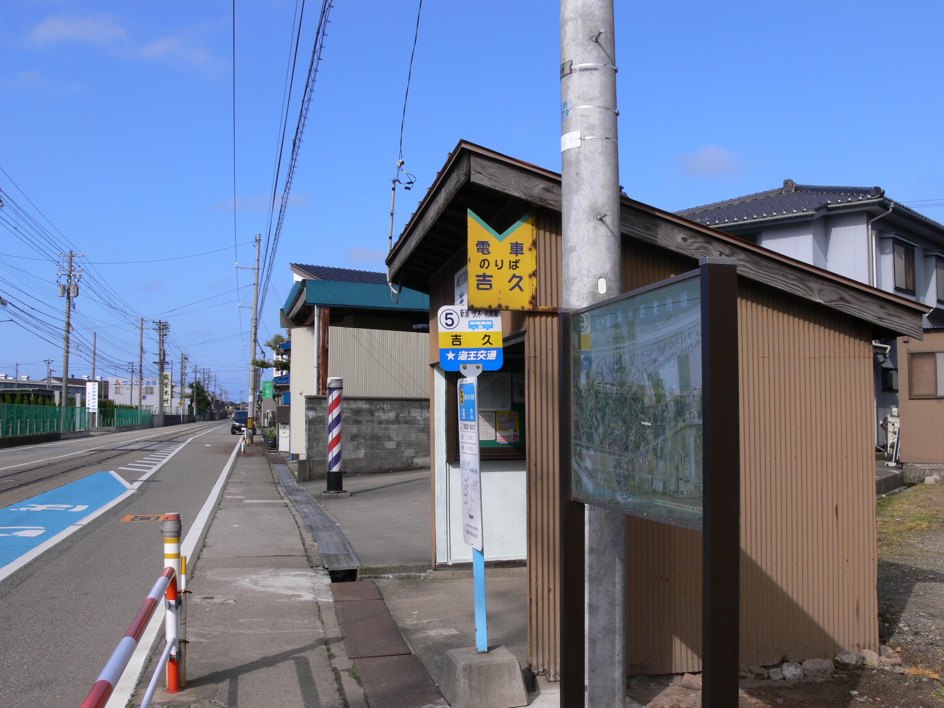 Manyoline Yoshihisa Station